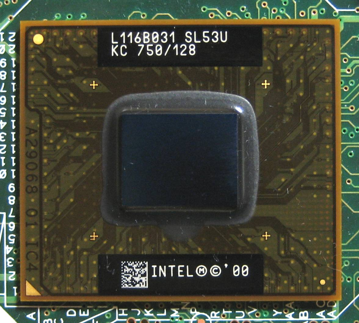 Mobile Intel Celeron processor 750 MHz (128 KB L2 caches), BGA package.